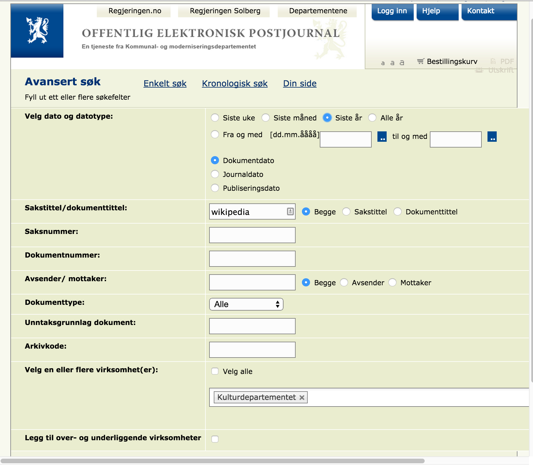 Search interface of the Norwegian Electronic Public Records (OEP) is a collaborative tool which central government agencies use to publicise their public records online.